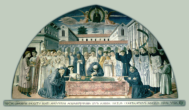 a panel from Benotto Gozzoli's fresco cycle at the church of S'Agosto in Gimignano